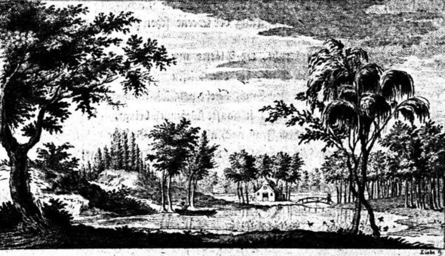 "Eine Gegend von Brandt" ('A view/scene of Brandt')- The image is from page 211 in volume one of C.C.L. Hirschfeld's Theorie der Gartenkunst Leipzig, 1779-1785. - (Drawings listed page 231.) Category:Theorie der Gartenkunst Hirschfeld